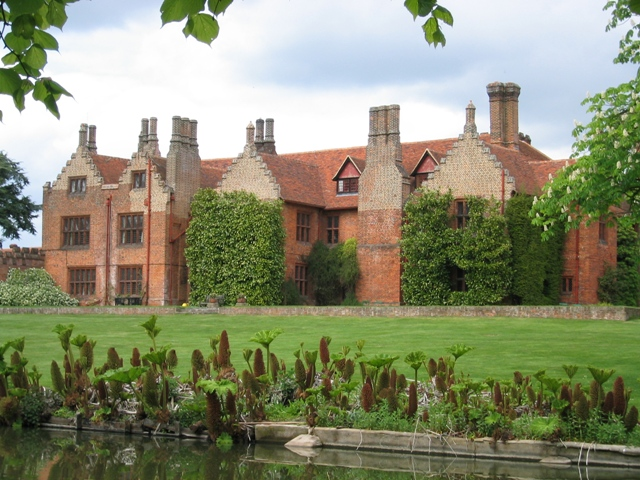 Ingatestone Hall. The south face of the Elizabethan Ingatestone Hall from across the Stewpond.